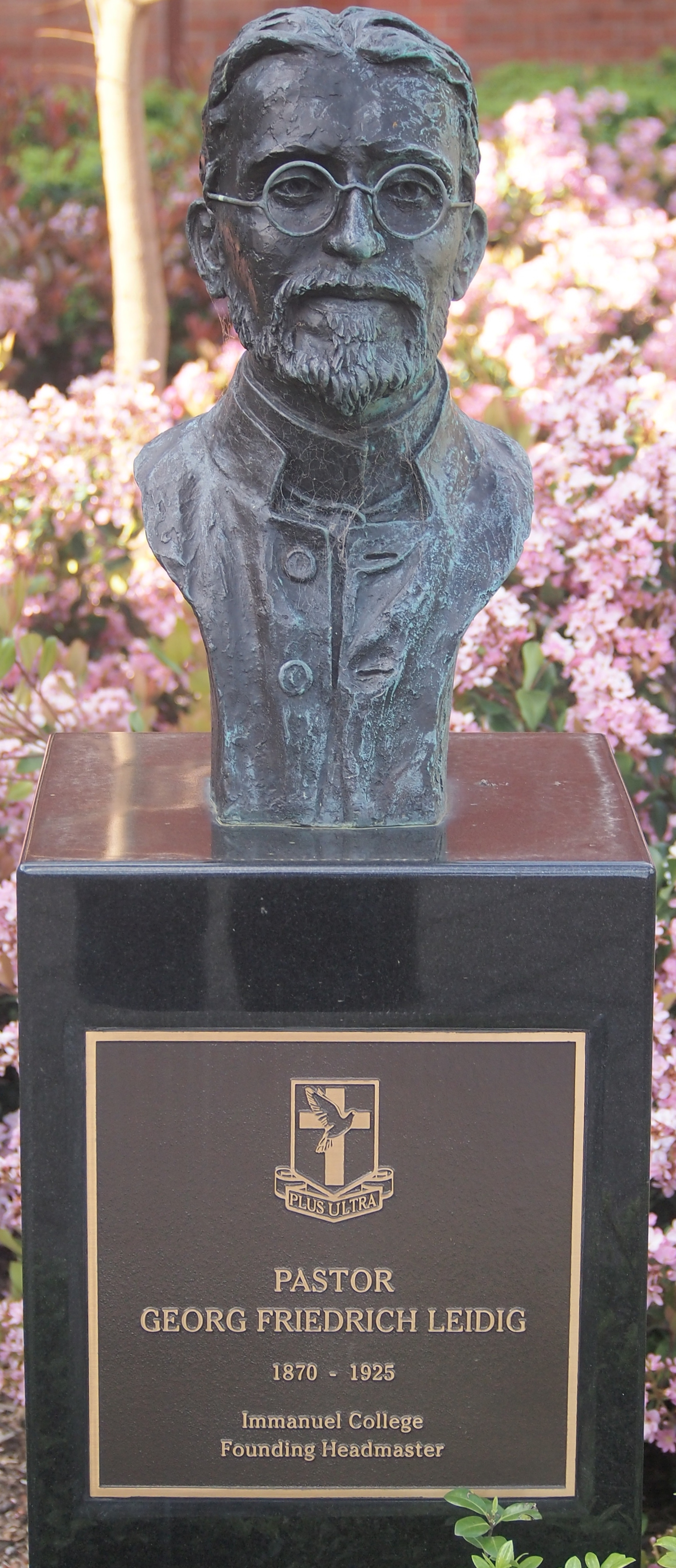 Bust of Georg Friedrich Leidig, founder of the Lutheran Immanuel College in South Australia. The bust is located in the college grounds, in front of the Margaret Ames Centre. Original filename = PA072167.JPG, rotated, cropped.